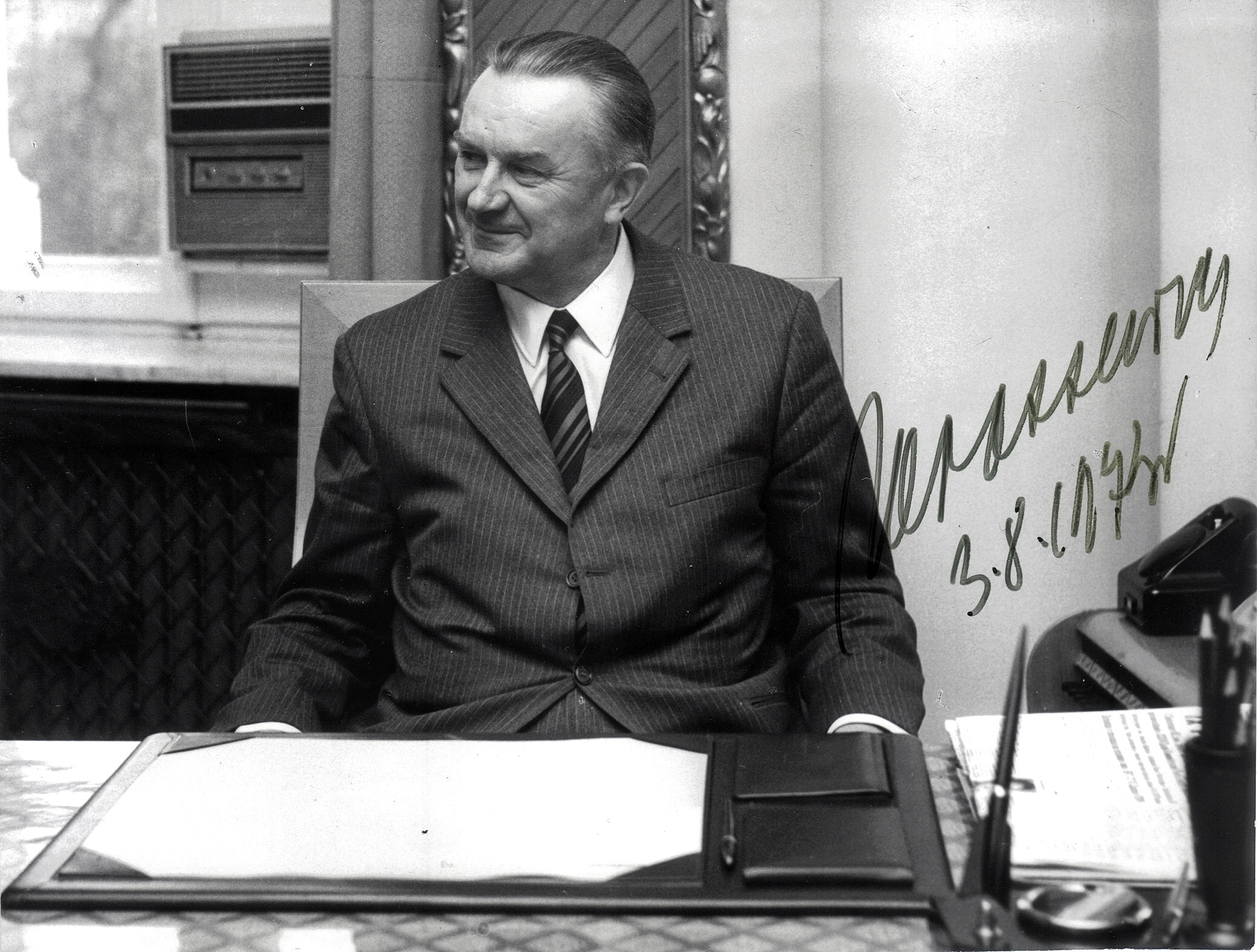 Piotr Jaroszewicz, Prime Minister of the People's Republic of Poland 1970-1980